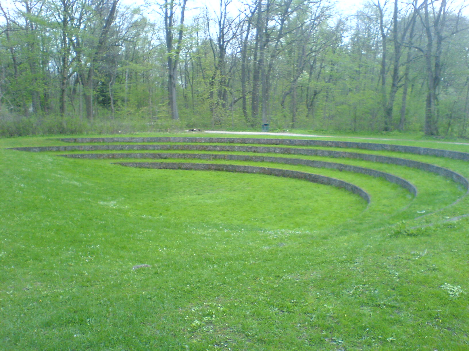 The Englische Garten or "English Garden" is a large urban public park that stretches from the city center to the northeastern city limits of Munich, Germany. With an area covering 3.7 km² the Englischer Garten is one of the world's largest urban public parks.